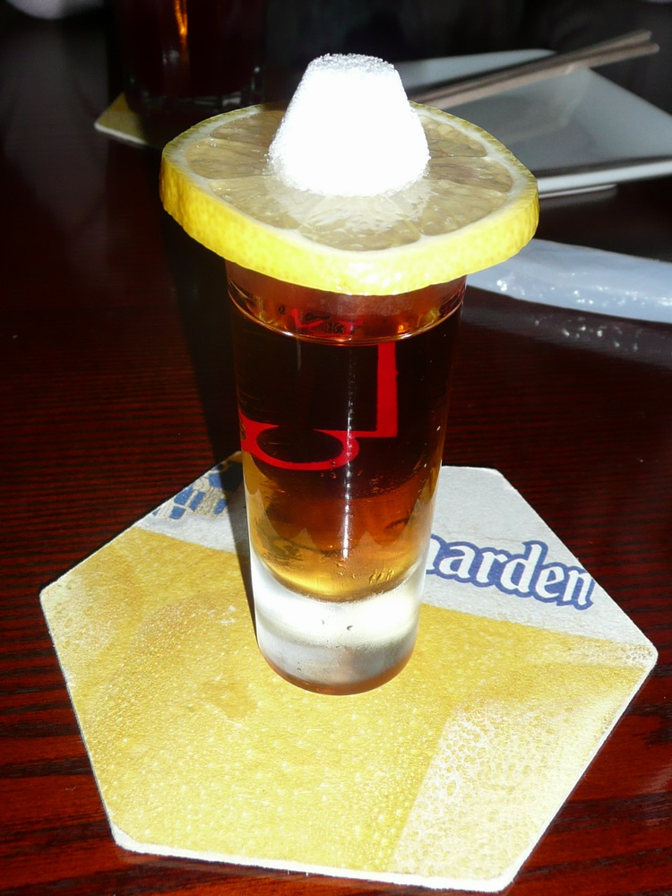 Cocktail - Nikolaschka